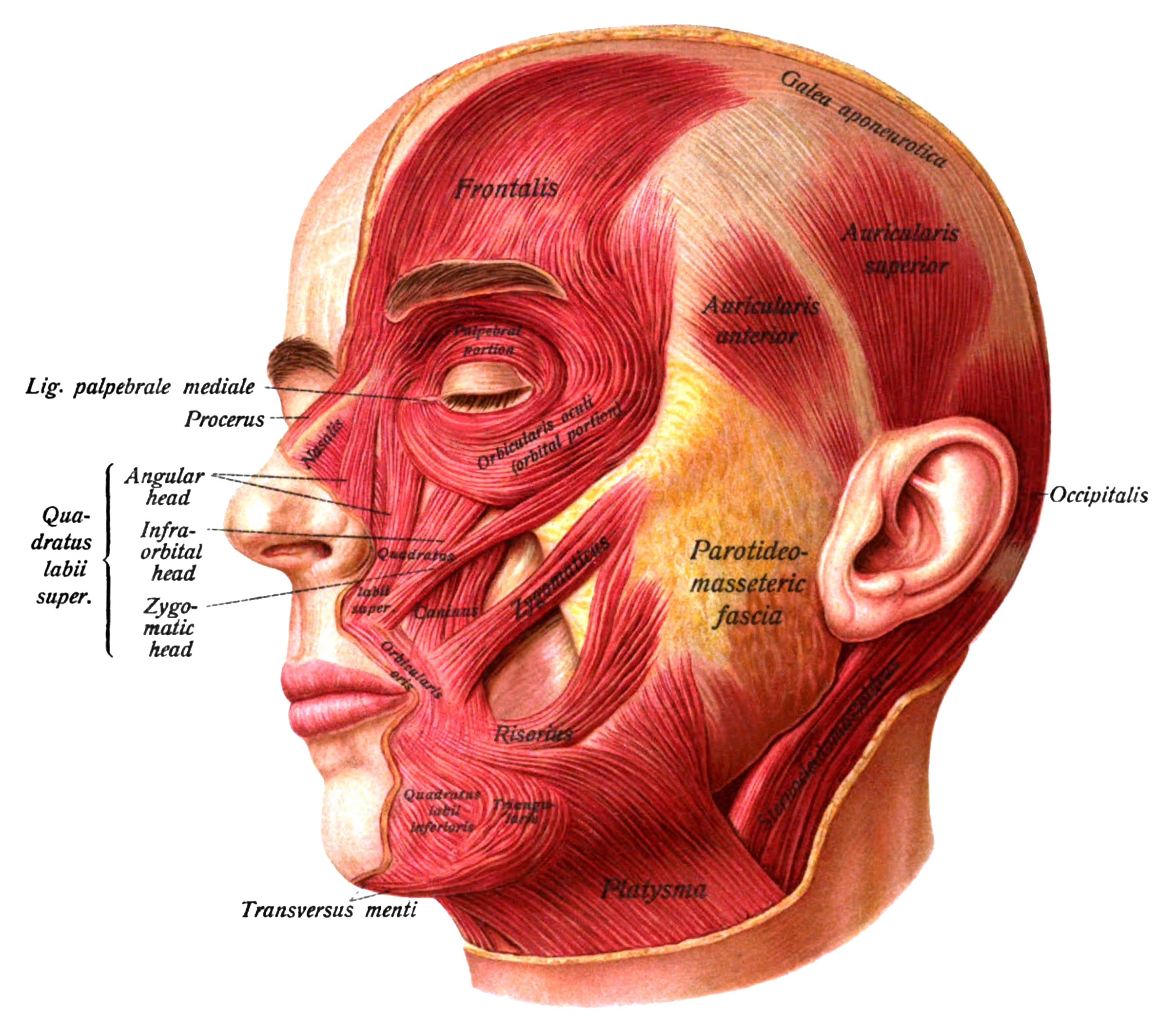 The superficial layer of the facial muscles and the neighboring muscles of the neck seen from the side and slightly from in front.